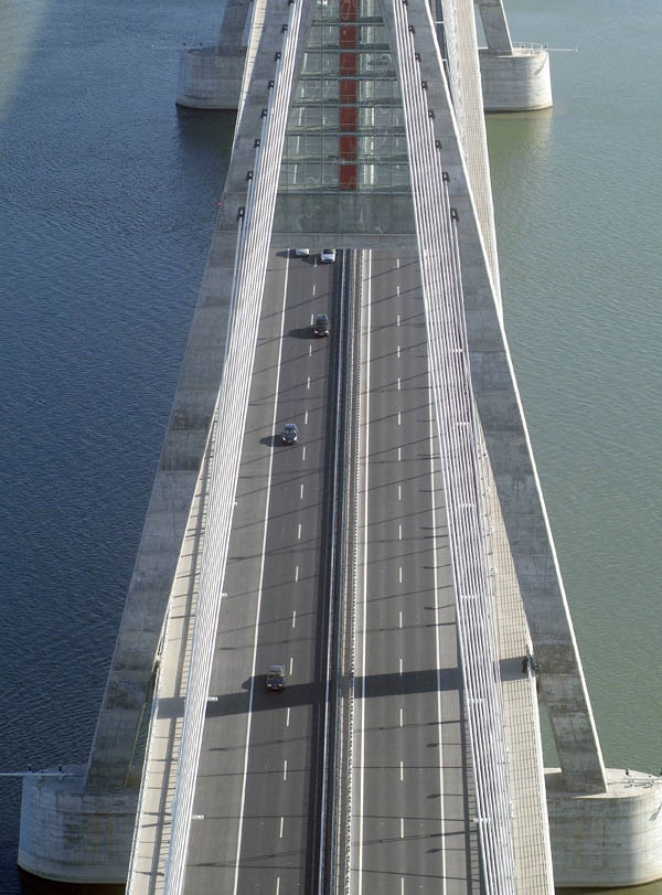 Megyeri Híd, Hungary, aerial photography